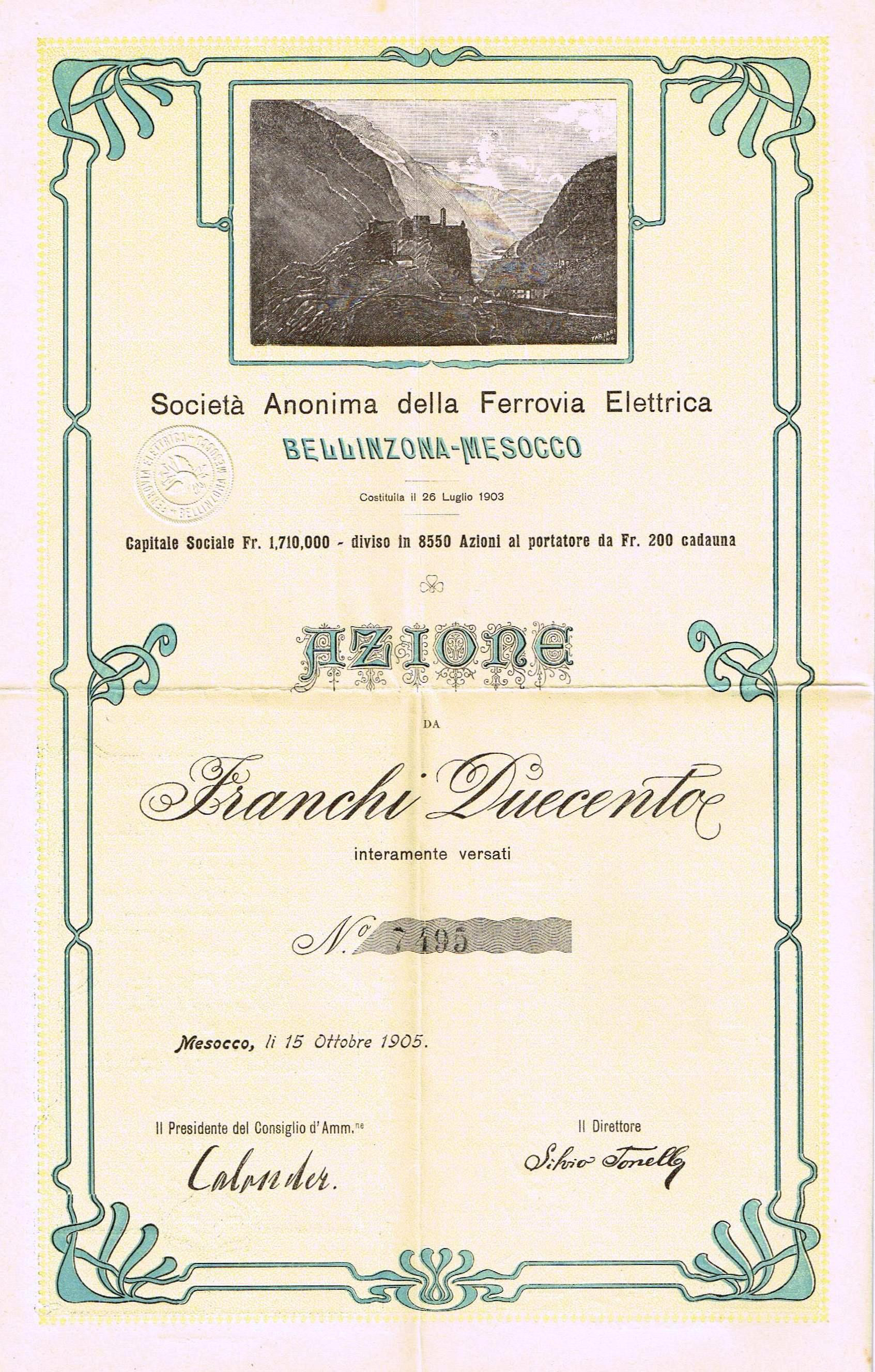 Share of the Società Anonima della Ferrovia Elettrica Bellinzona-Mesocco, issued 15. October 1905